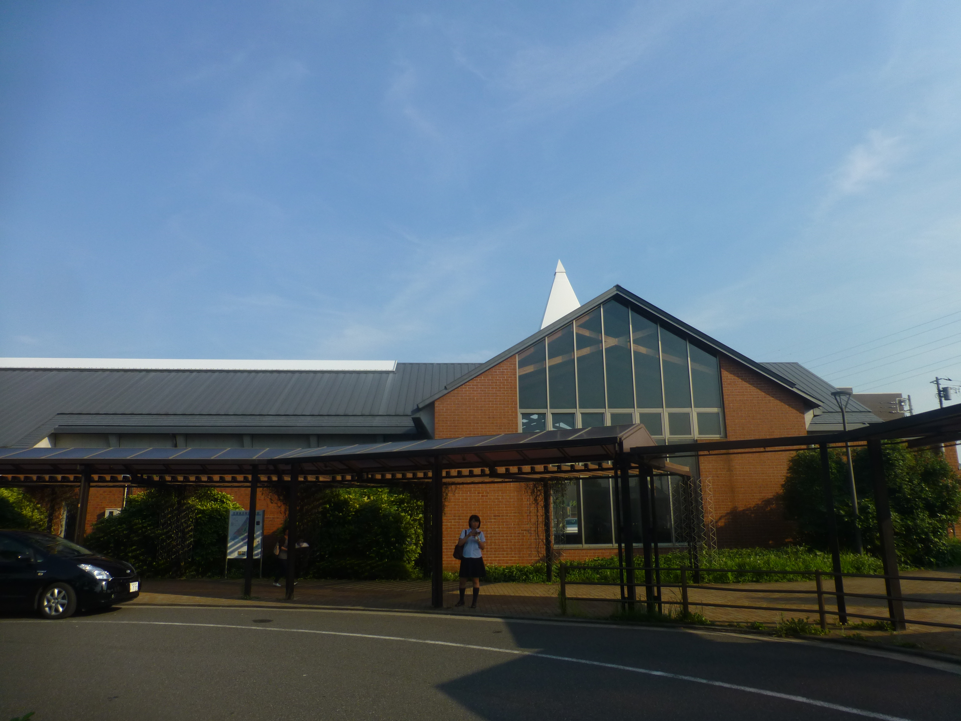 Funabashi-Nichidaimae Station east exit (船橋日大前駅の東口）